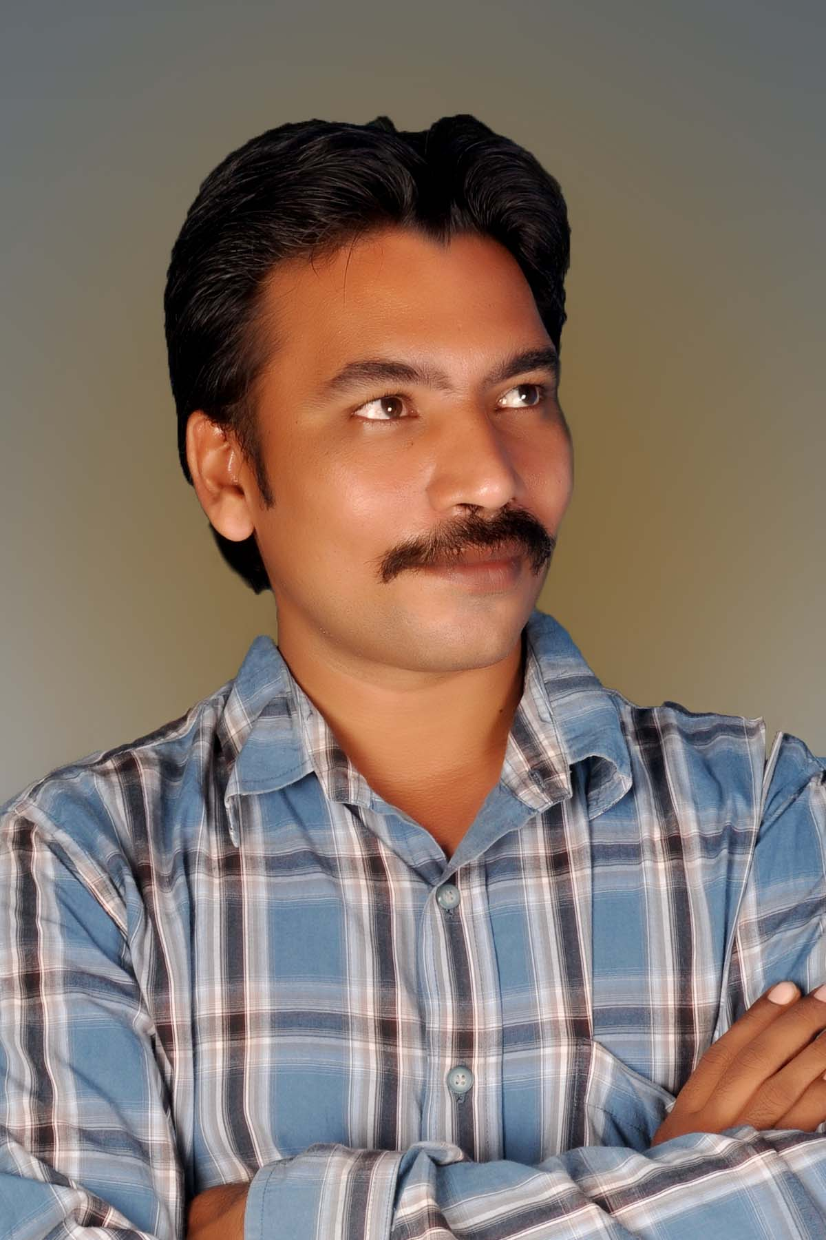 నాట‌క ర‌చ‌యిత‌, ద‌ర్శ‌కుడు : విద్యాధ‌ర్ మునిప‌ల్లె